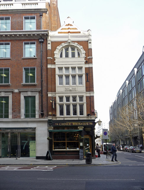 Old Red Lyon Public House, London WC1 The Old Red Lyon is on the corner of Red Lyon Street and High Holborn.